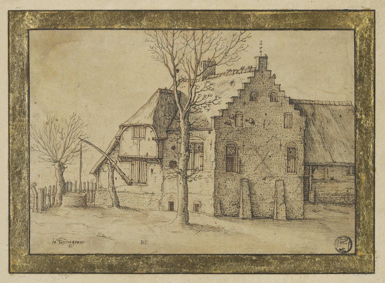 House at Wijnegem, anonymous pen drawing from the end of the 16th century in the Louvre (Cabinet des dessins, Fonds des dessins et miniatures, INV 21003, Recto) Collected by Everhard Jabach 13,0 x 18,7 cm